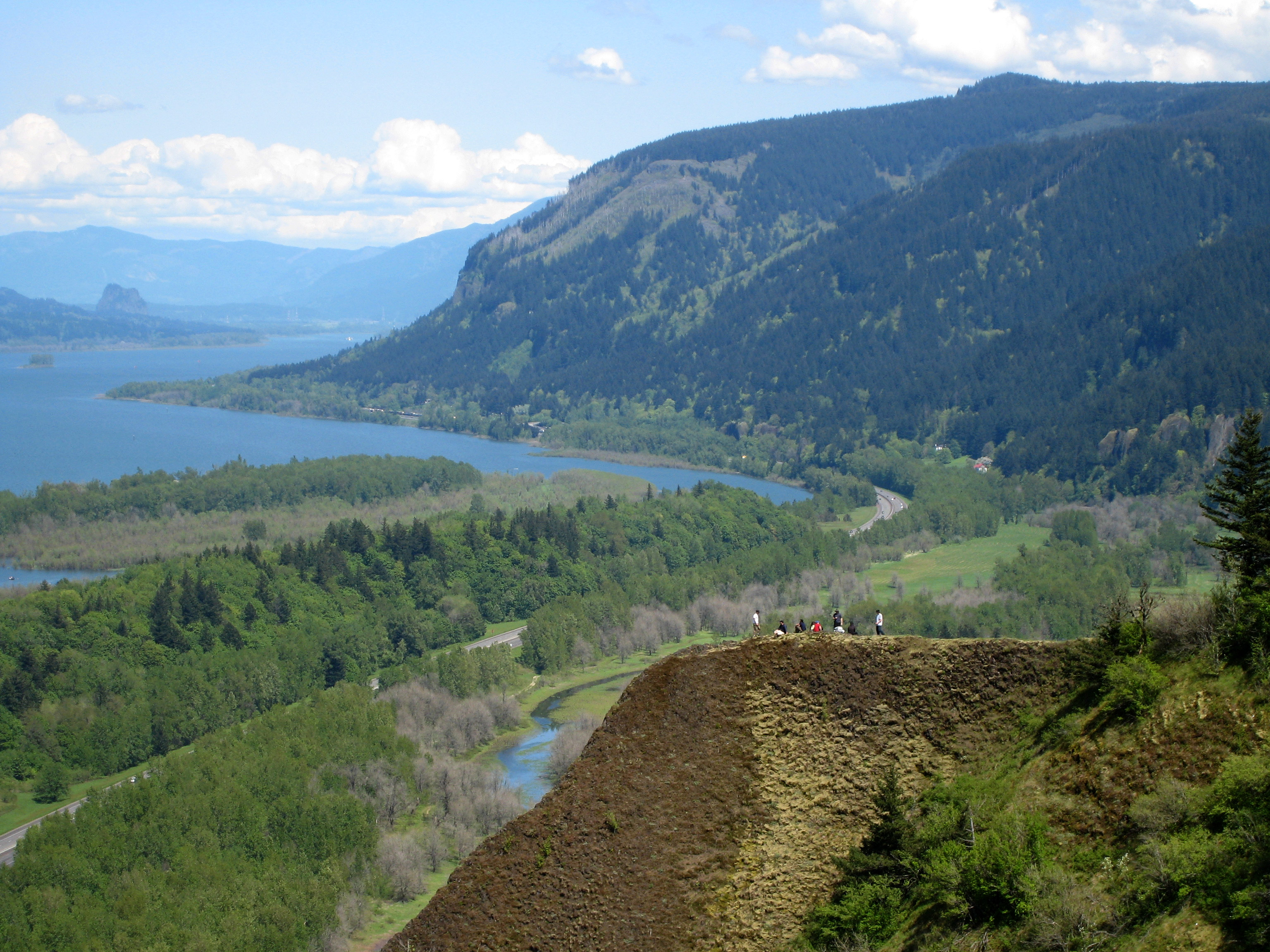 Looking east up the Columbia River Gorge, from Crown Point in Oregon, USA.